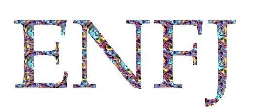 fancy logo/writing for use in MBTI articles